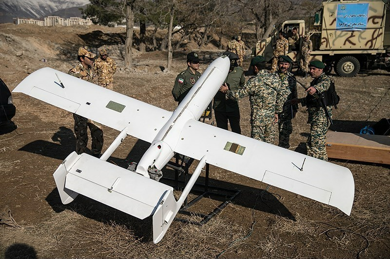 An Iranian Qods Mohajer-2 drone at an Iranian Army disaster relief exercise in Lavizan district.